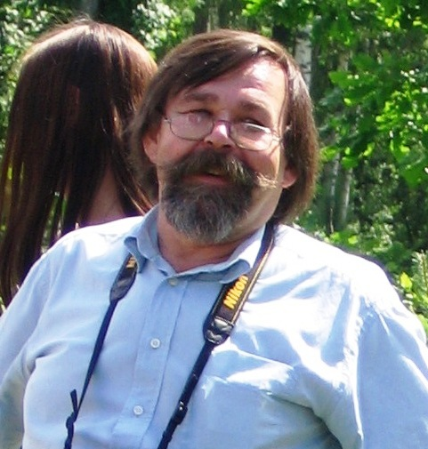 Estonian archaeologist Ain Mäesalu